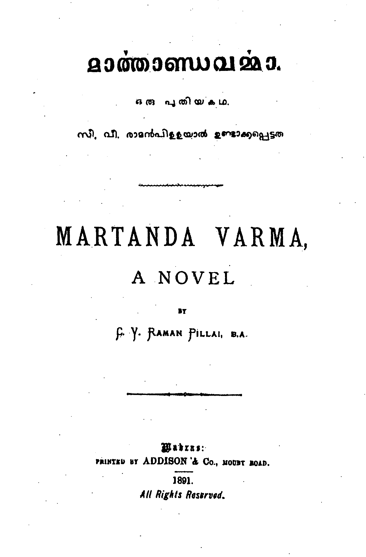 The title page of first edition of Marthandavarma novel by C. V. Raman Pillai. File is a scan copy of photocopy of the original page and edited with Adobe Photoshop 7.0